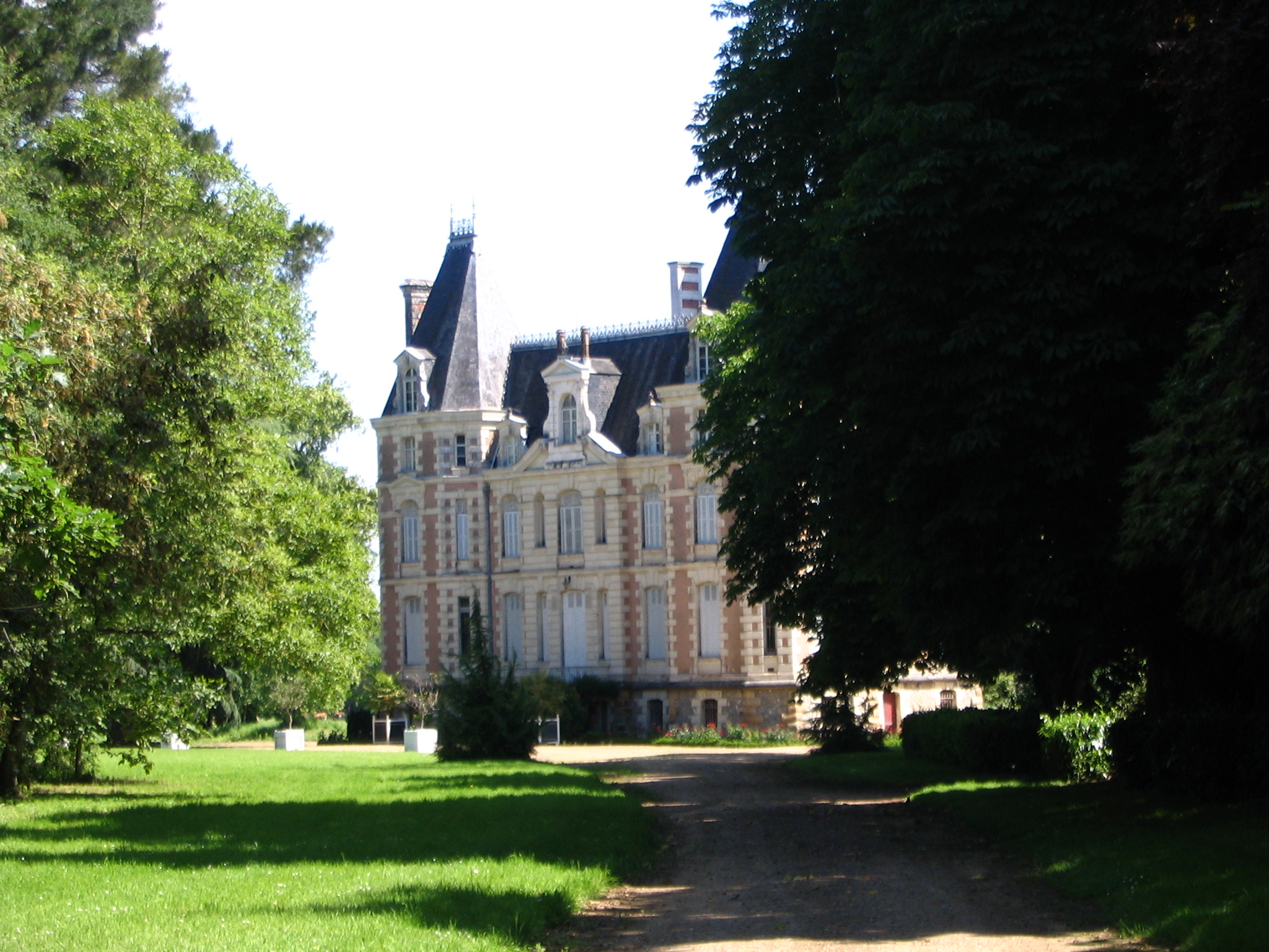 The Oseraie catle, in Chemiré-sur-Sarthe, Maine-et-Loire, France.